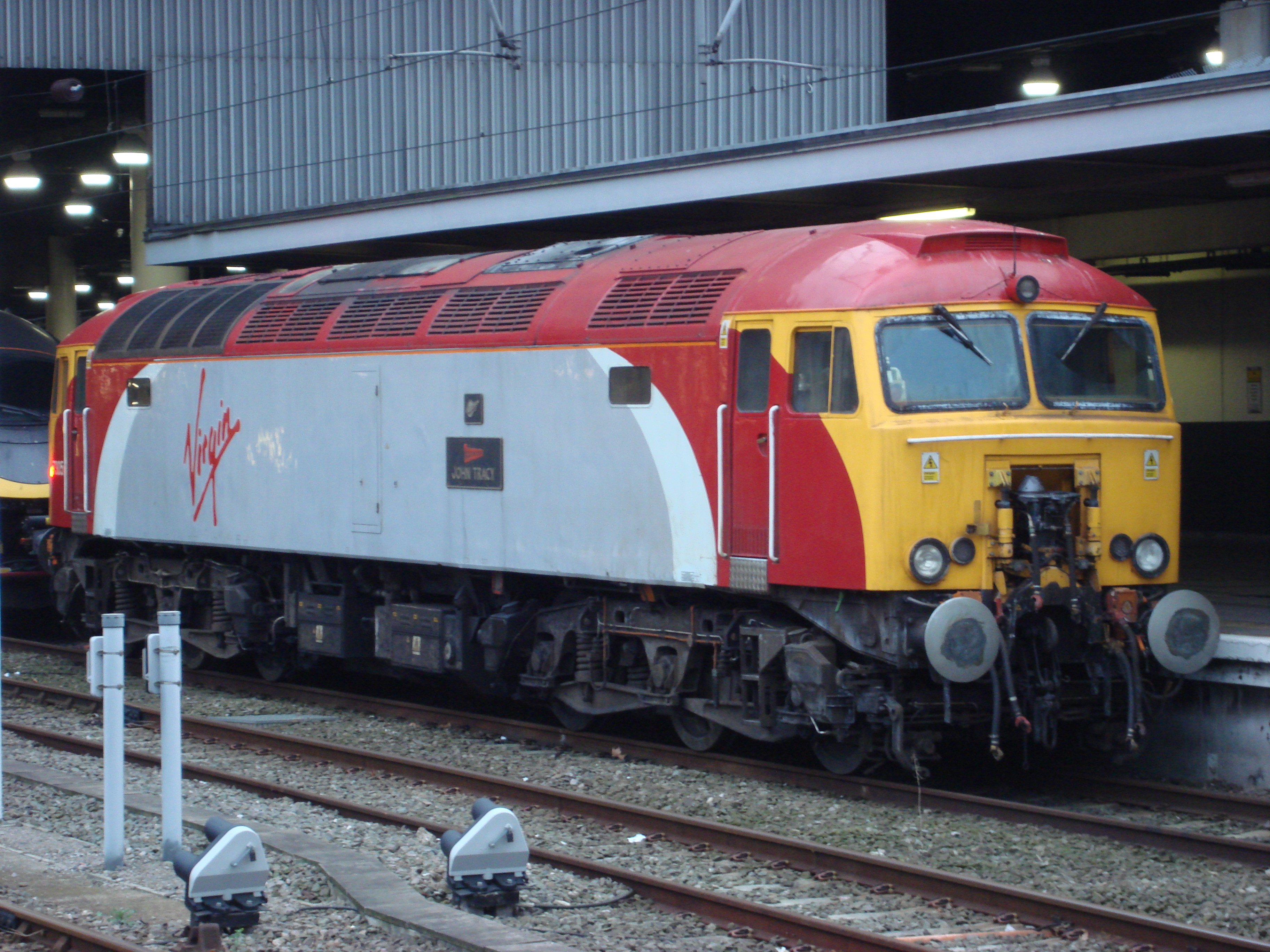 57305 at Euston Station, London, UK